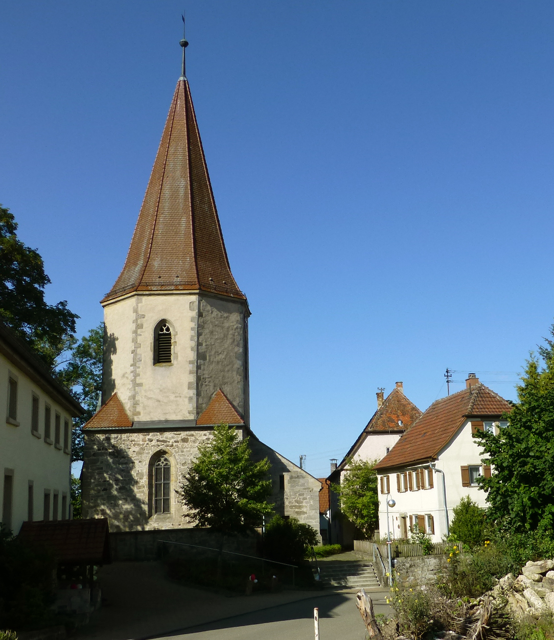 One of the 2 St.Georgen Churches of Marktlustenau, burrough of Kreßberg, Baden-Württemberg.